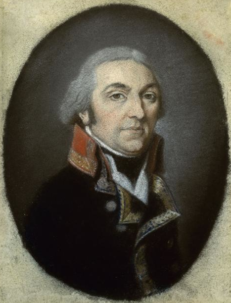 "L.-M.-A. Sahuc (1755-1813), lieutenant général". Portrait of General Louis-Michel-Antoine Sahuc (1755 – 1813), a cavalry commander of the Revolutionary and Napoleonic Wars.